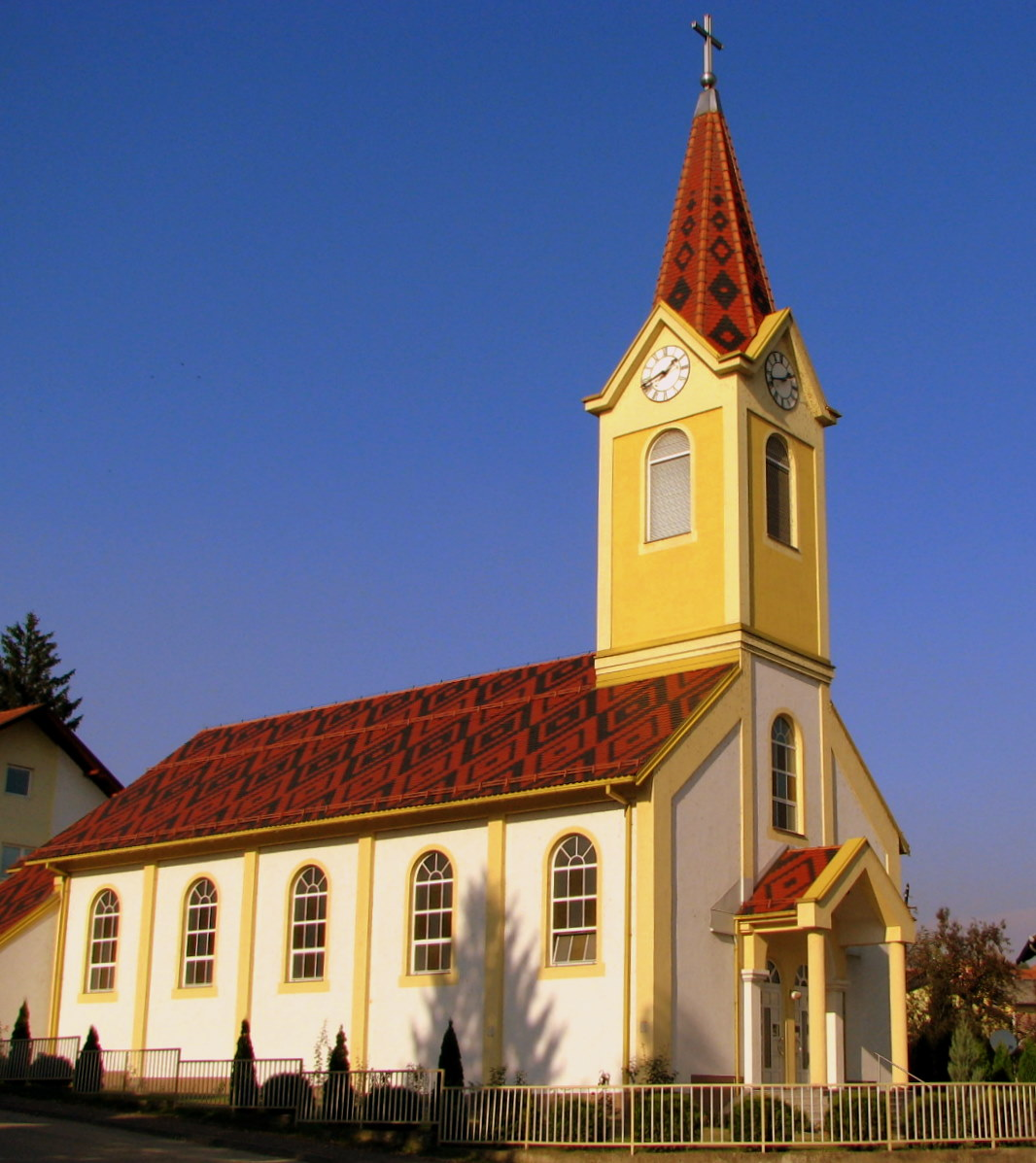 Roman catholic church of Sacred heart of Jesus